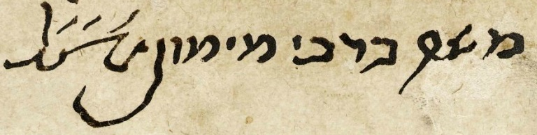 Maimonides' own signature, in a manuscript originating in 12th-century Egypt. Now stored in Oxford's Bodleian Library as MS. Huntington 80.